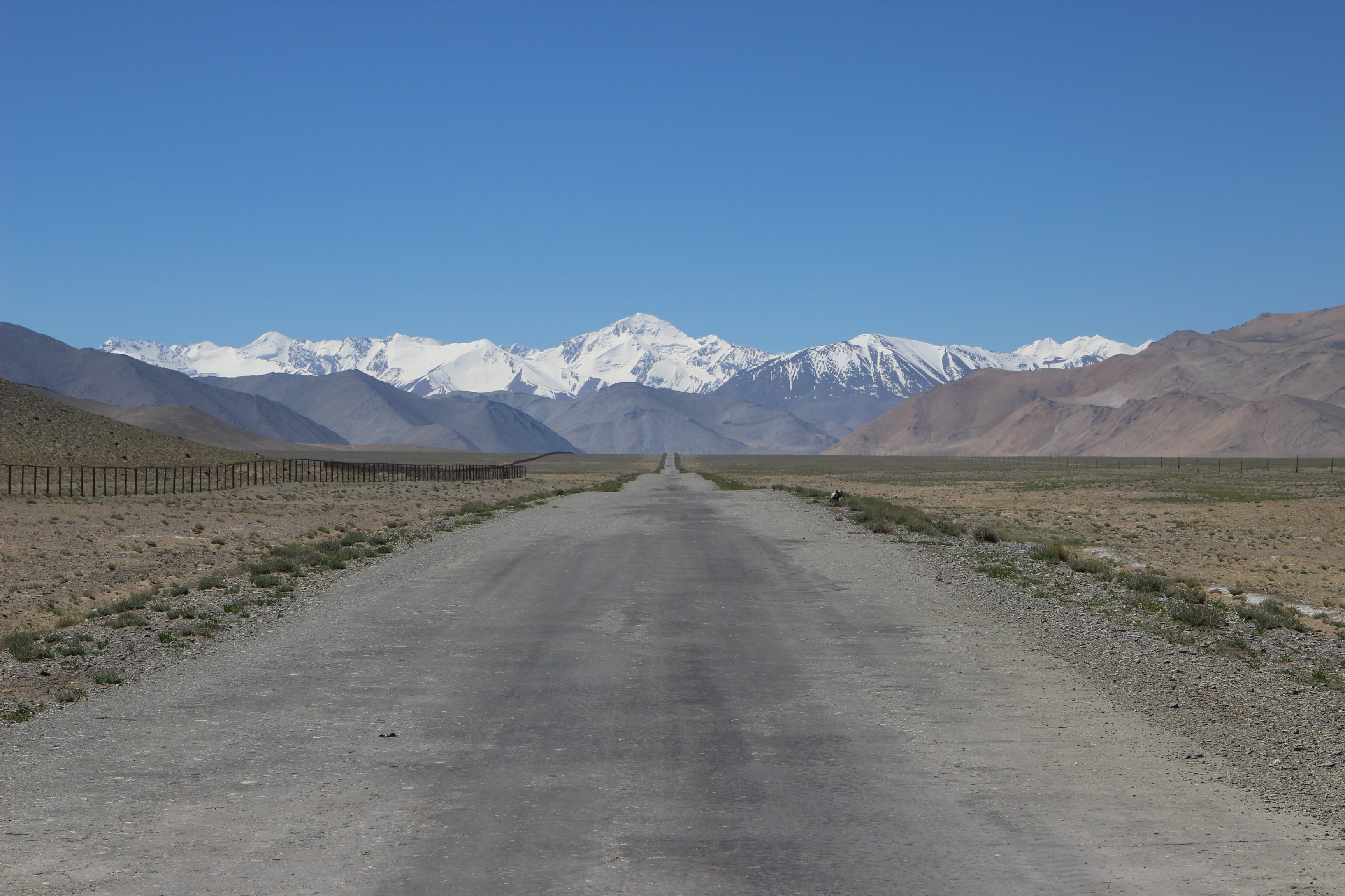 the Pamir Highway in Tajikistan near the Karakul lake